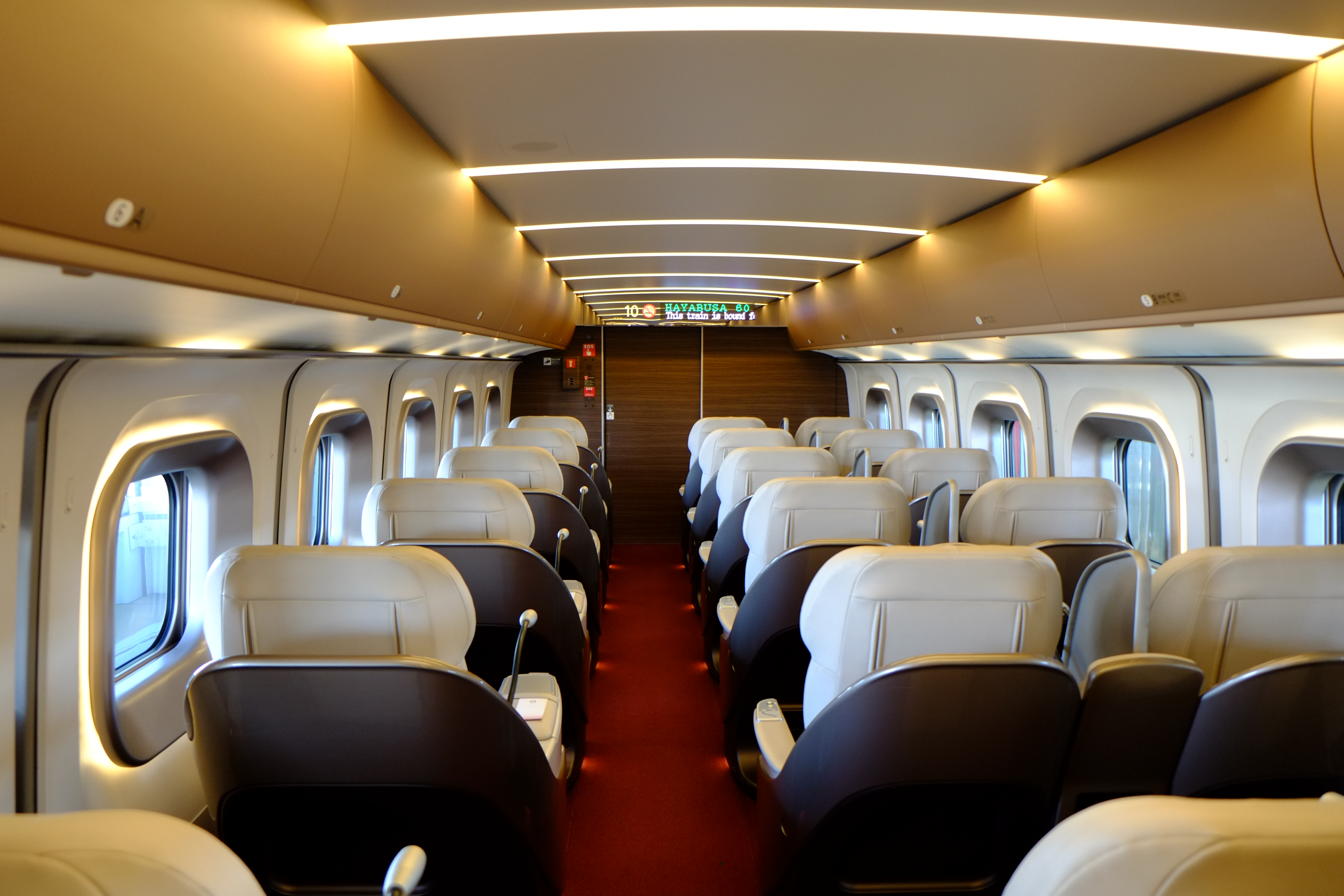 The interior of a JR East E5 series shinkansen Gran Class car on a Hayabusa service